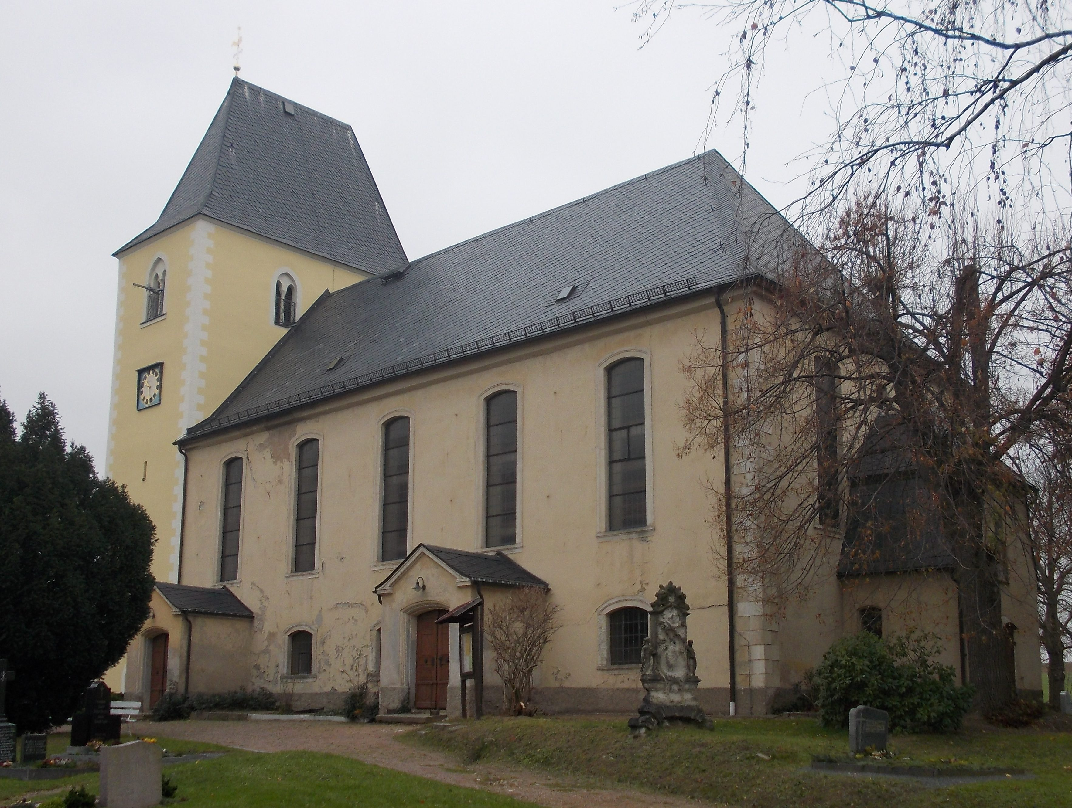 Marbach church (Striegistal, Mittelsachsen district, Saxony)